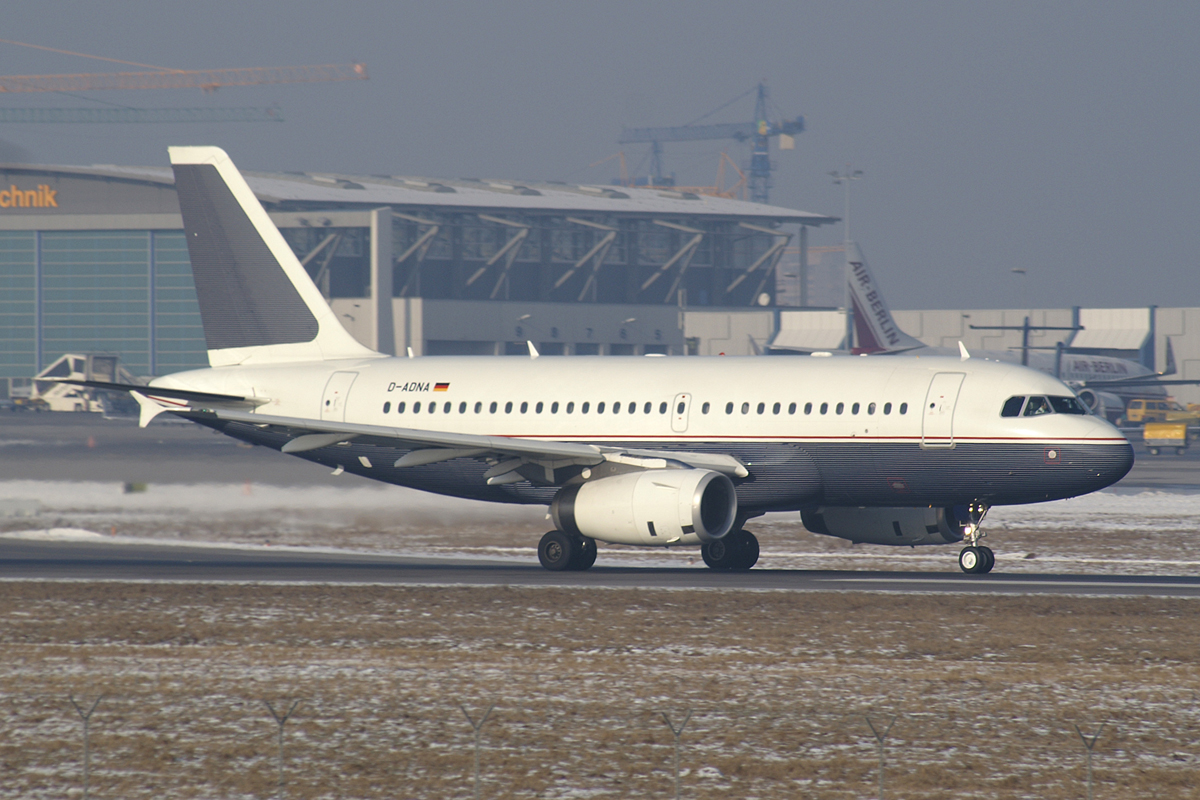 DaimlerChrysler Aviation Airbus Corporate Jetliner D-ADNA